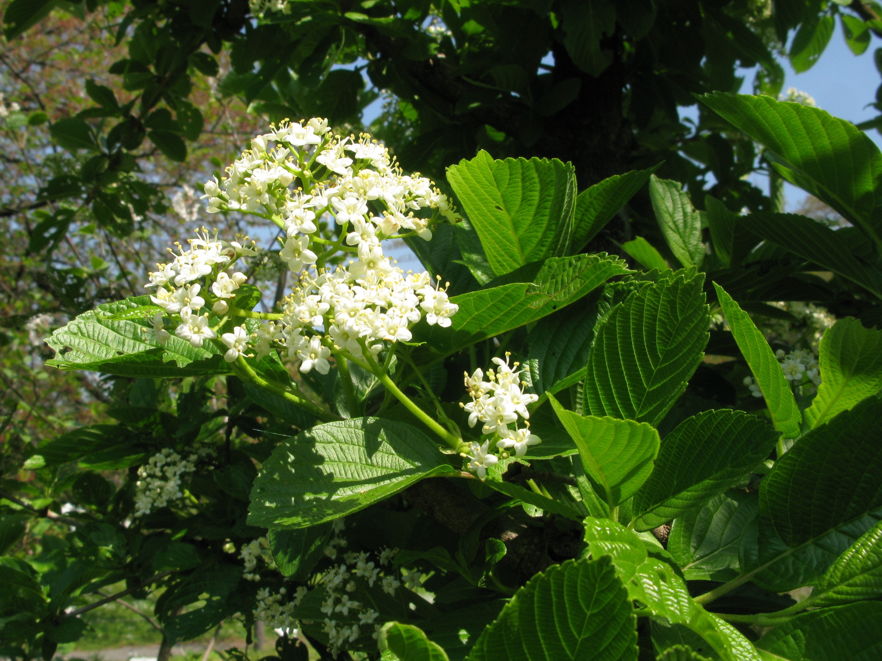 Viburnum sieboldii, Koishikawa, Botanical Gardens, the University of Tokyo, Japan